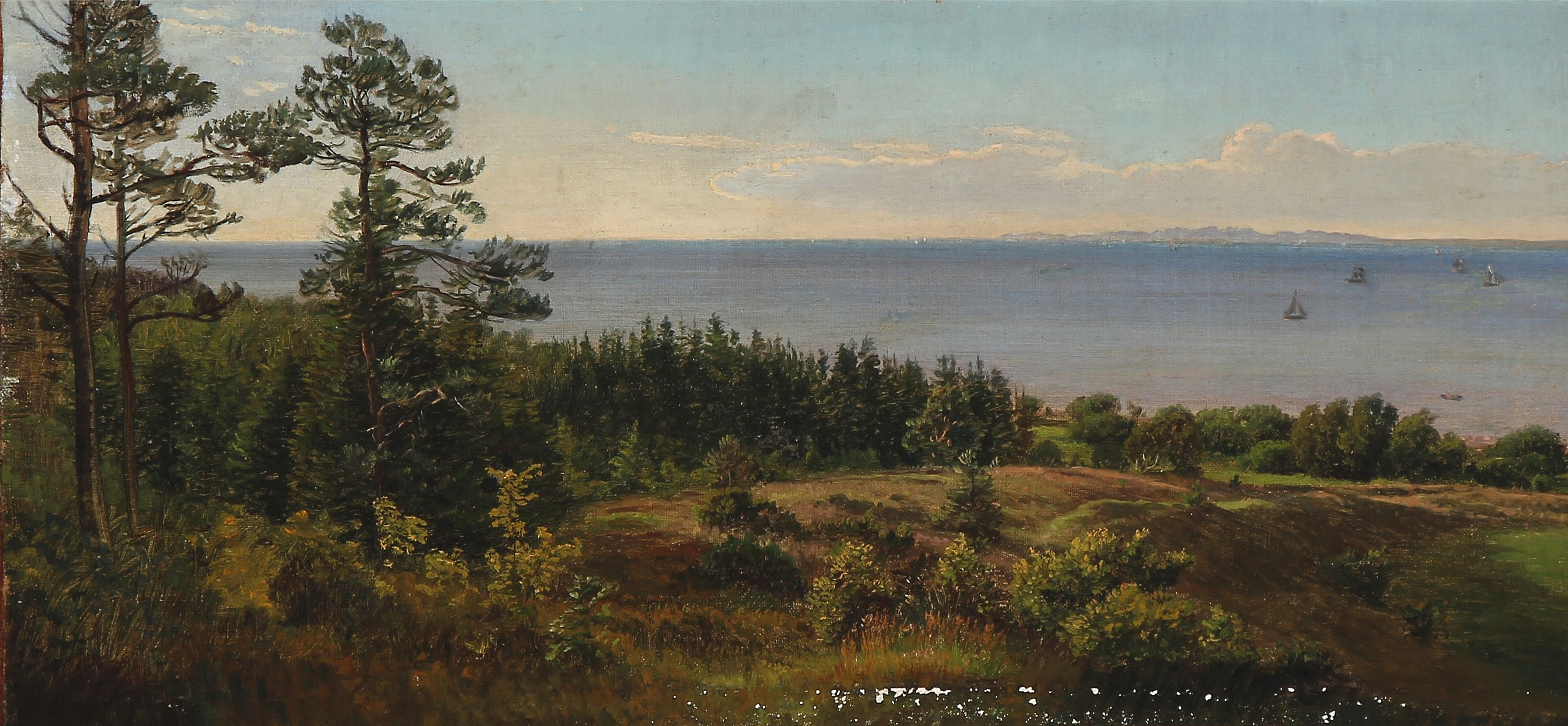 Study for a large painting from 1860 in Statens Museum for Kunst (The Danish National Gallery). That one exhibited at Charlottenborg in 1862.